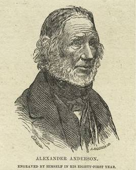 Print of 1856 wood engraving self portrait by Alexander Anderson, age 81 from NYPL Digital Gallery [1].